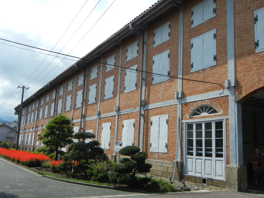 Tomioka-Silk-Mill_East-Cocoon-Warehouse.JPG